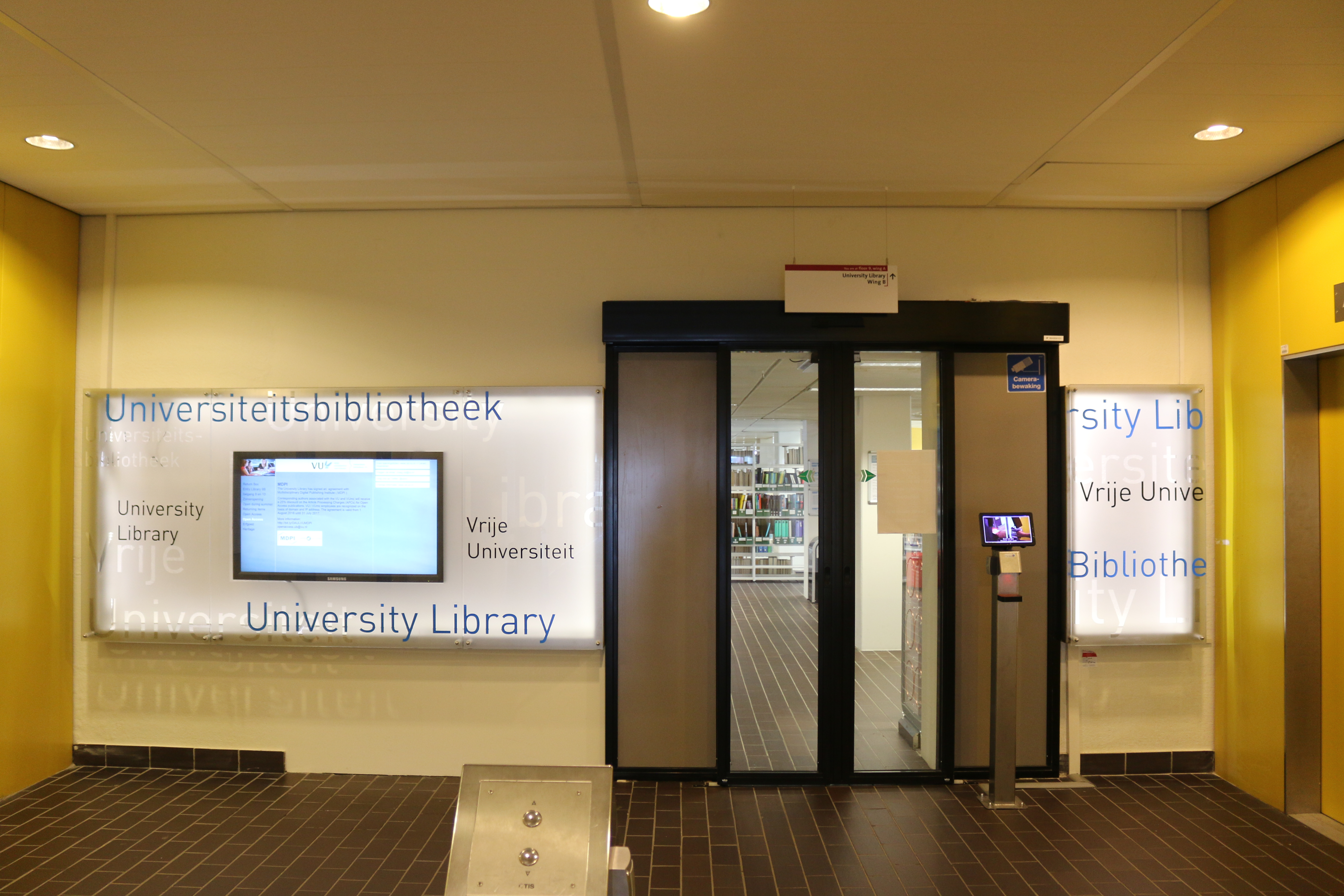 Library VU Amsterdam - Vrije Universiteit (2016) Photo: Persian Dutch Network